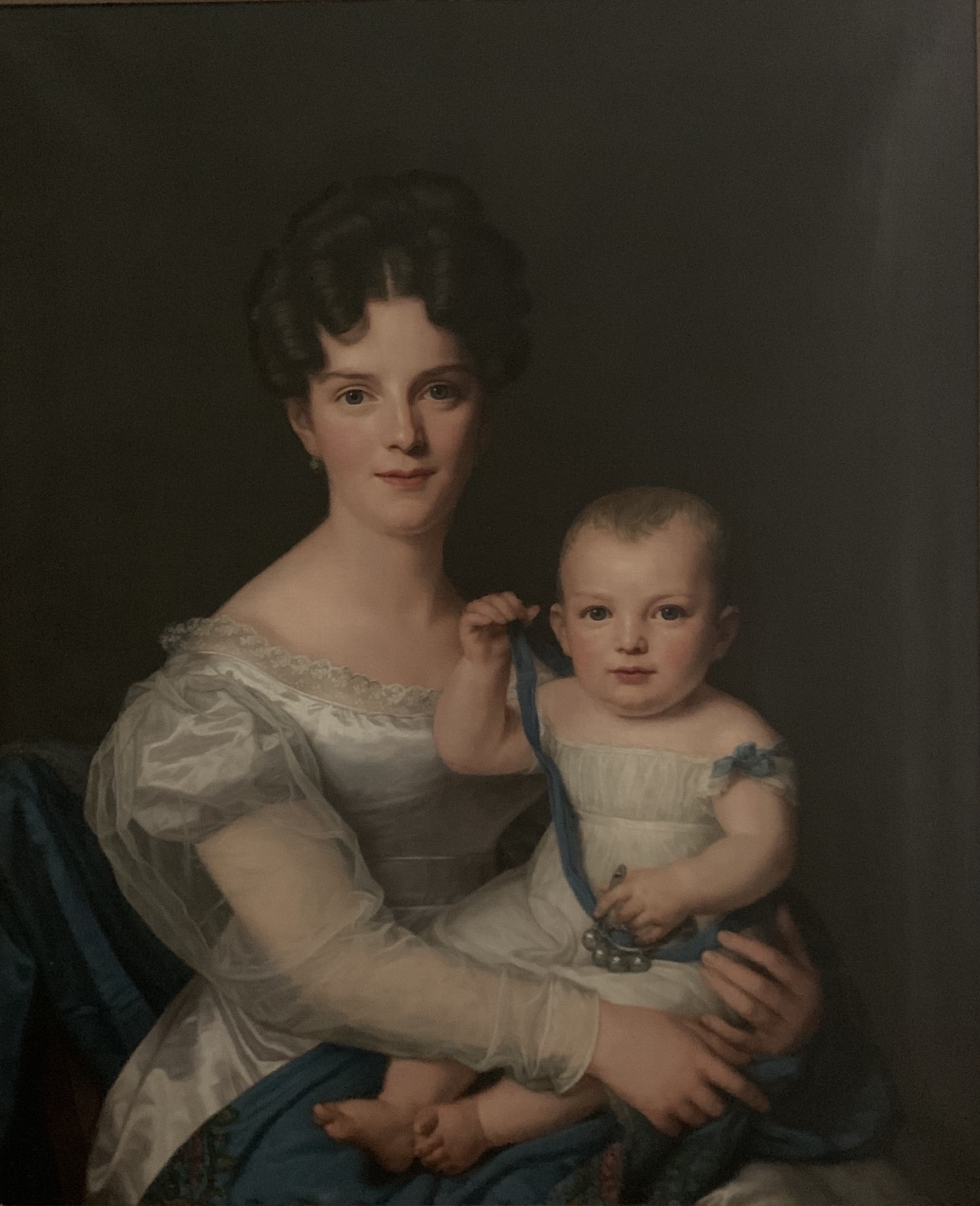 Portrait of Johanna Agathe Wüppermann, née Springhorn, wife of Hamburg merchant and politican Johann Friedrich Anton Wüppermann (1790-1879) with her first born son Hermann Anton Wüppermann (1827-1863).